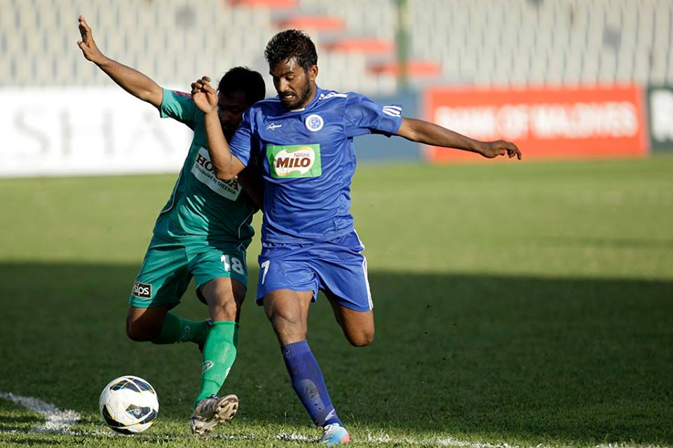 Ashfaq challenging a Kelantan FA player during 2015 Malaysia Super League game on 21 February 2015